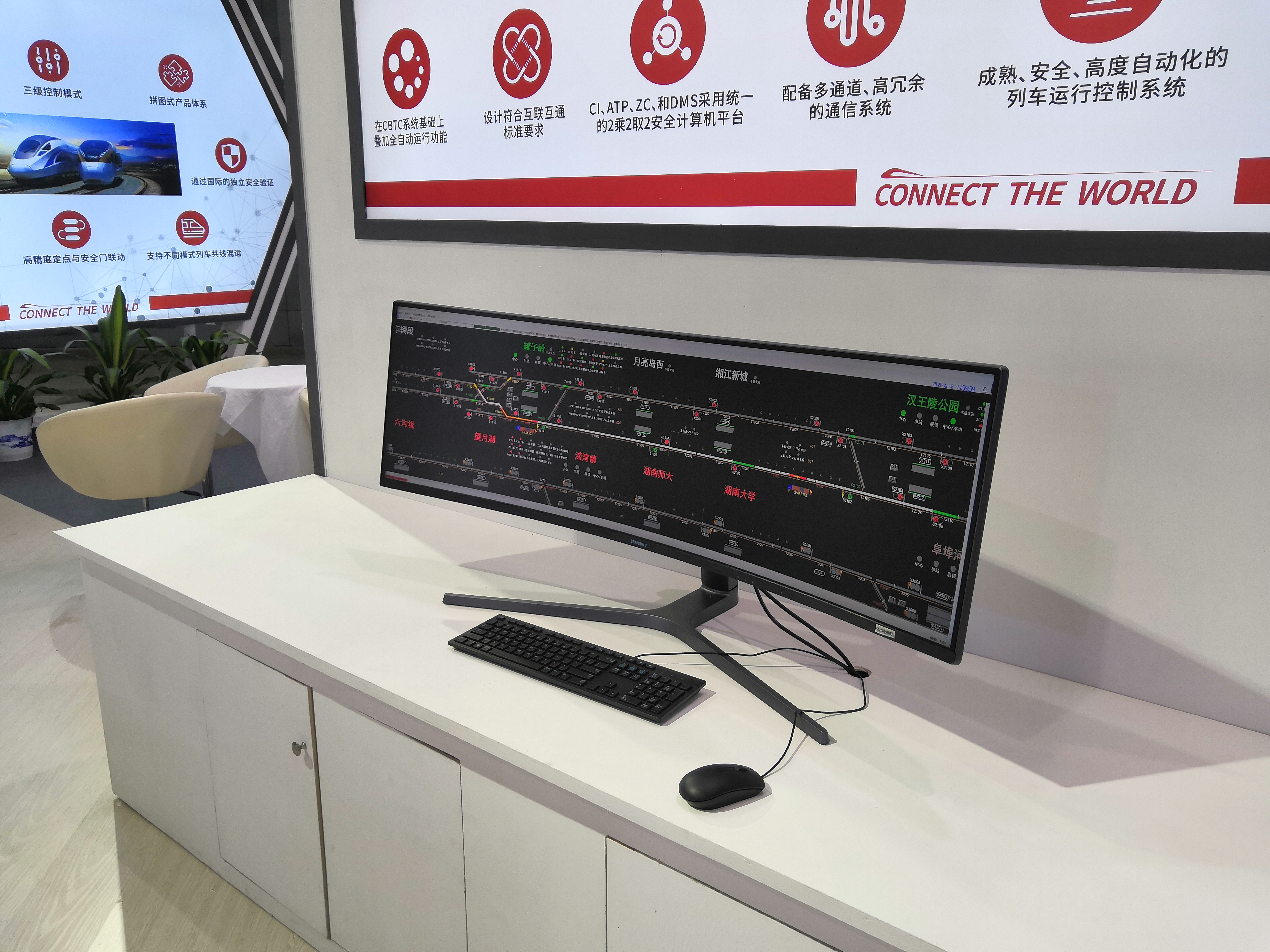 中文（中国大陆）: Changsha Metro dispatch system